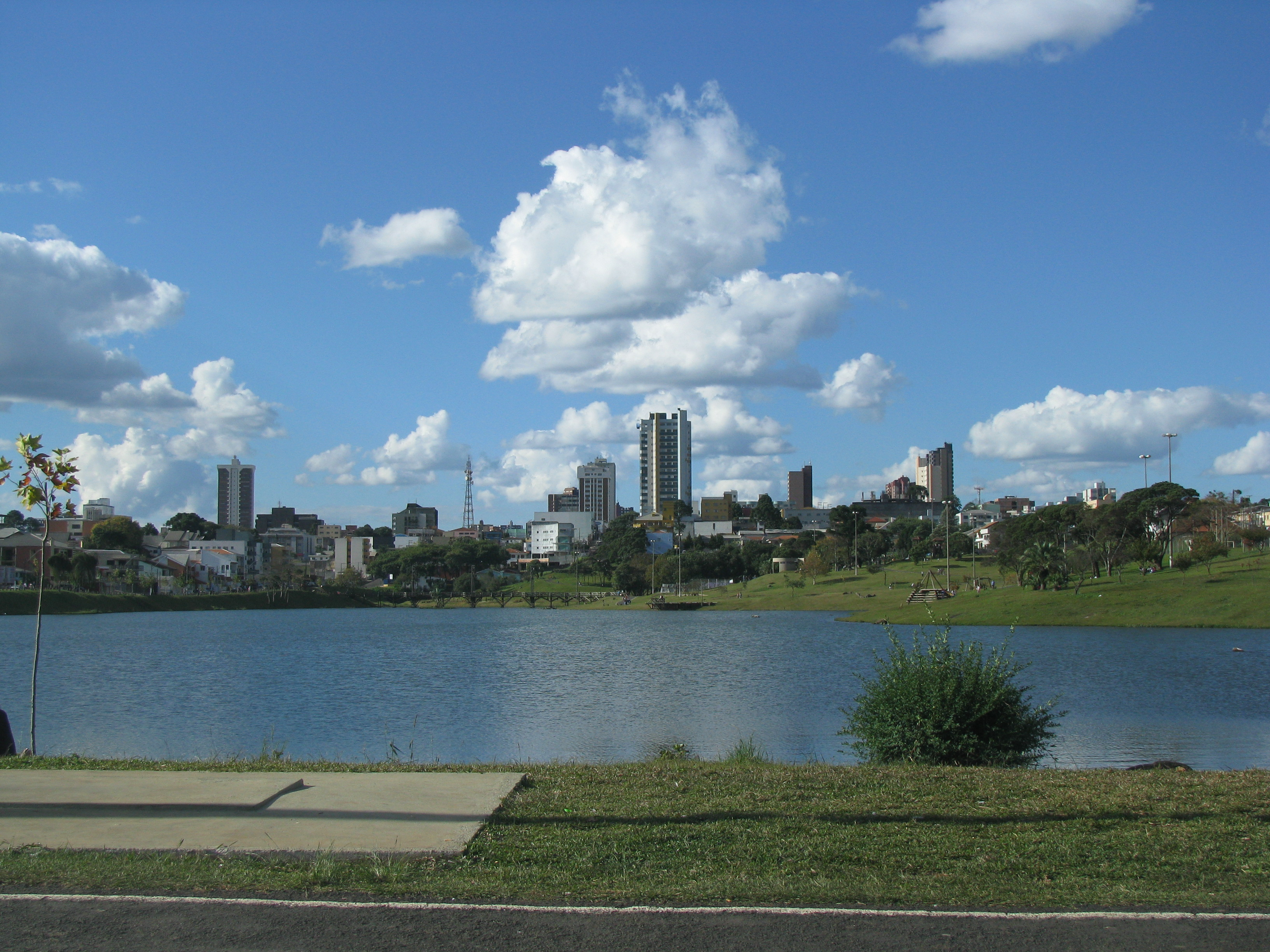 Skyline from Guarapuava Lake Park